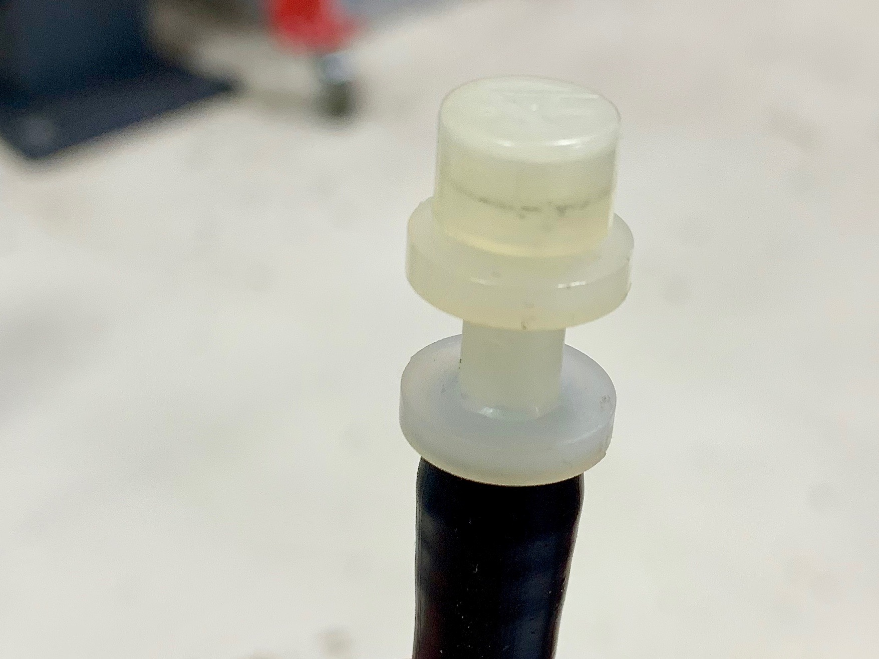 Toyota Transmission Umbrella Style Vent Valve